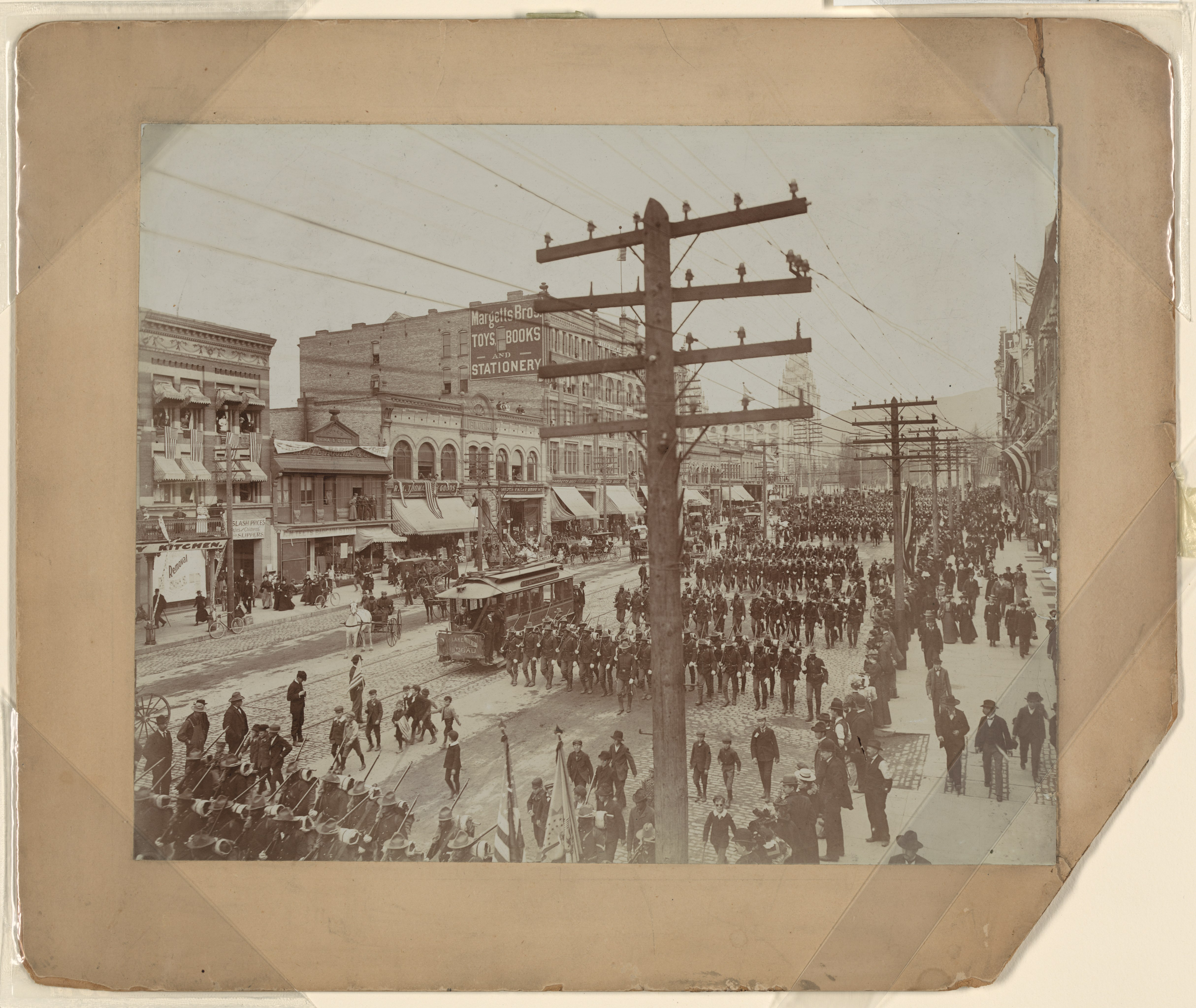 Title: 24th Infantry Leaving Salt Lake City, Utah for Chattanooga, Tennessee, April 24th, 1898 Abstract/medium: 1 photographic print ; image 19 x 24 cm, on board 25 x 30.5 cm.